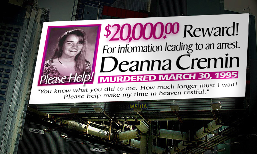 $20,000.00 Reward for information leading to an arrest in the Deanna Cremin Unsolved murder investigation.